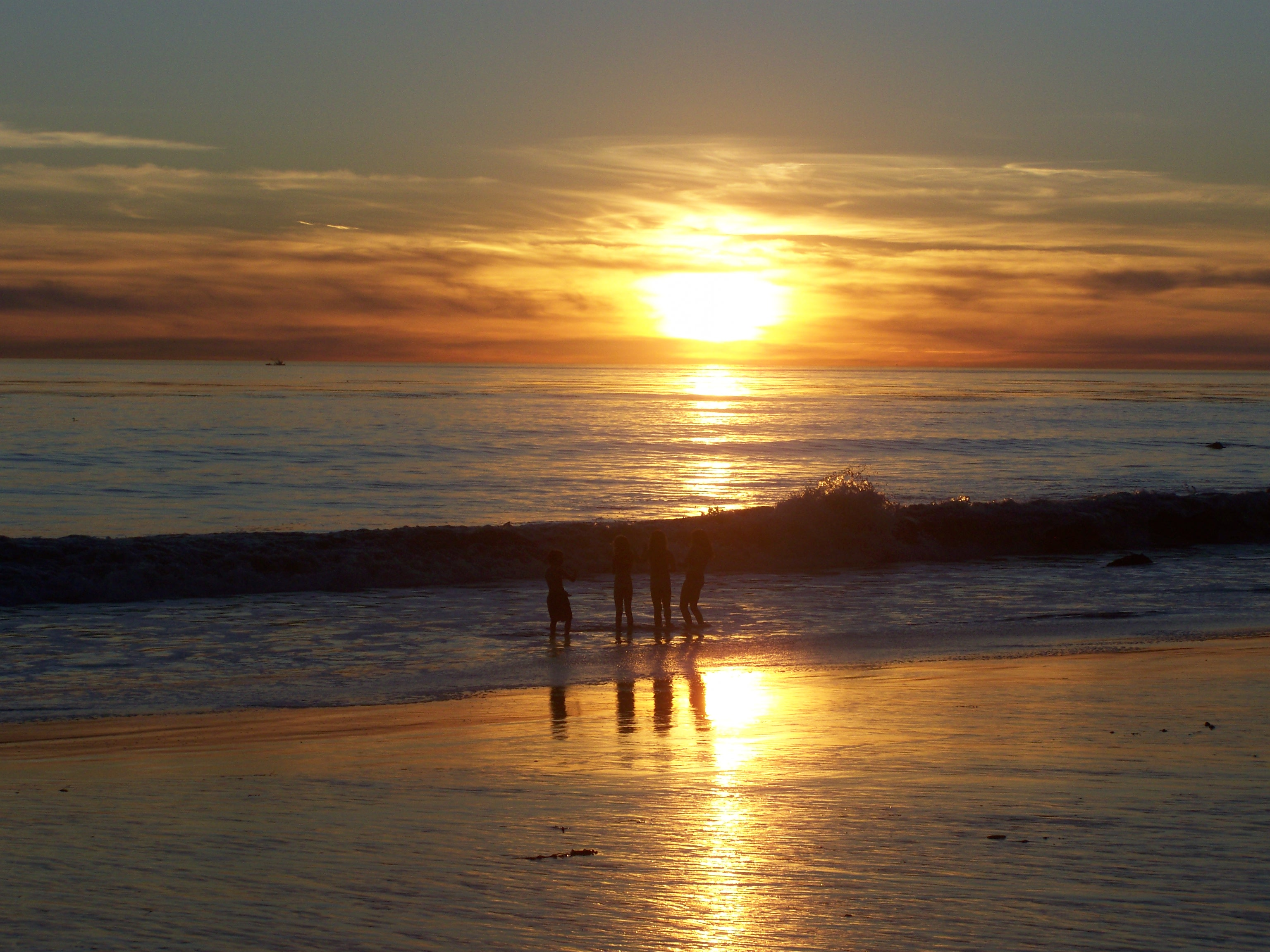 A fun evening in Malibu Beach